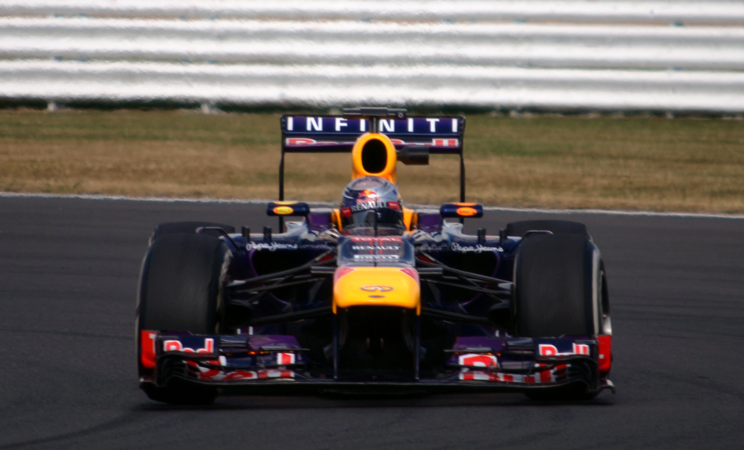 Sebastian Vettel driving the Red Bull RB9 at the Young Drivers' Test at Silverstone.